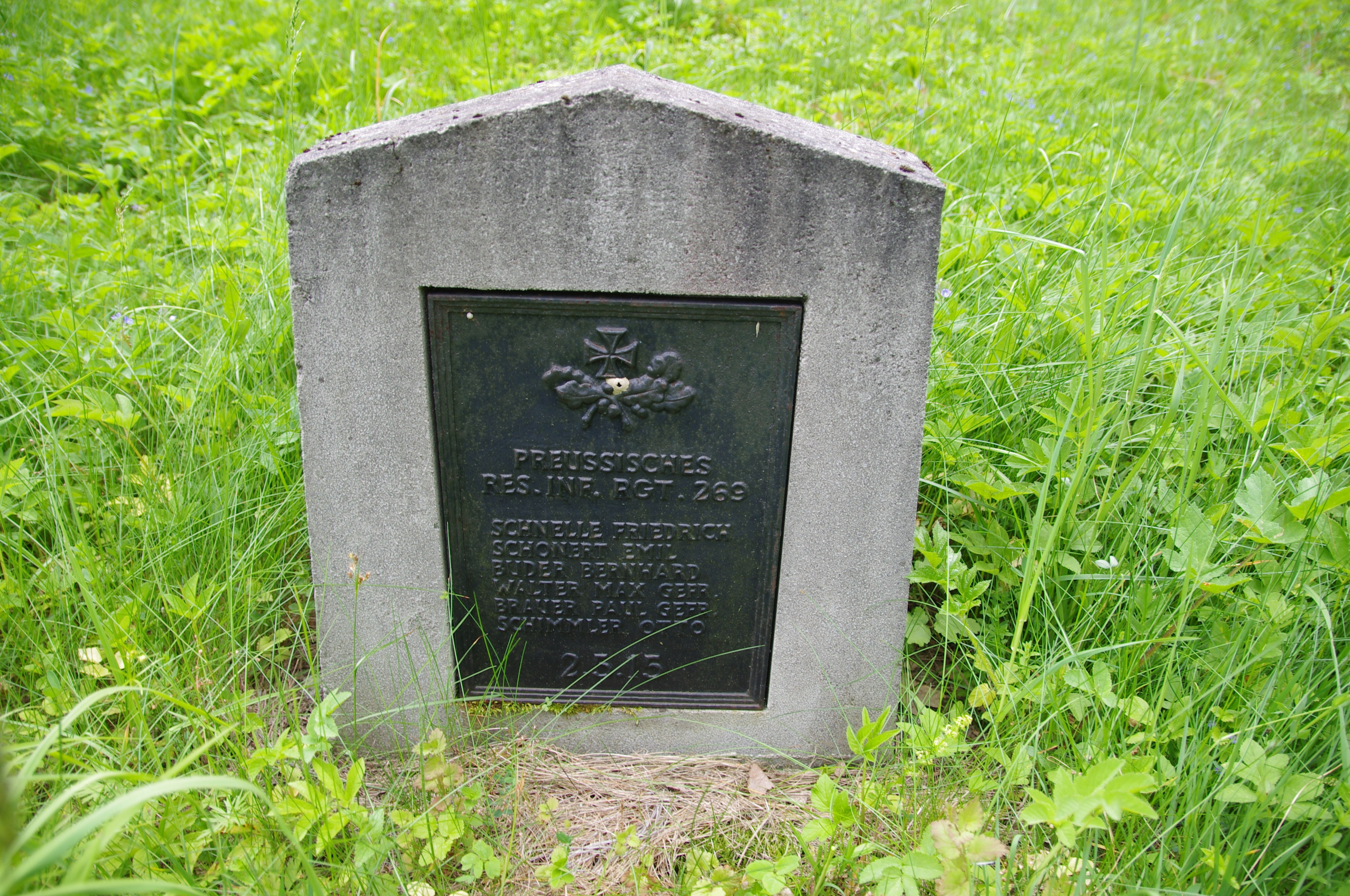 World War I Cemetery nr 124 in Mszanka